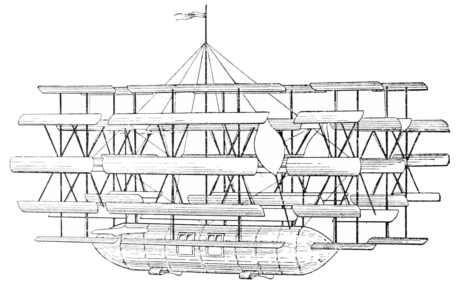 Wellner sail wheel flying machine for four persons